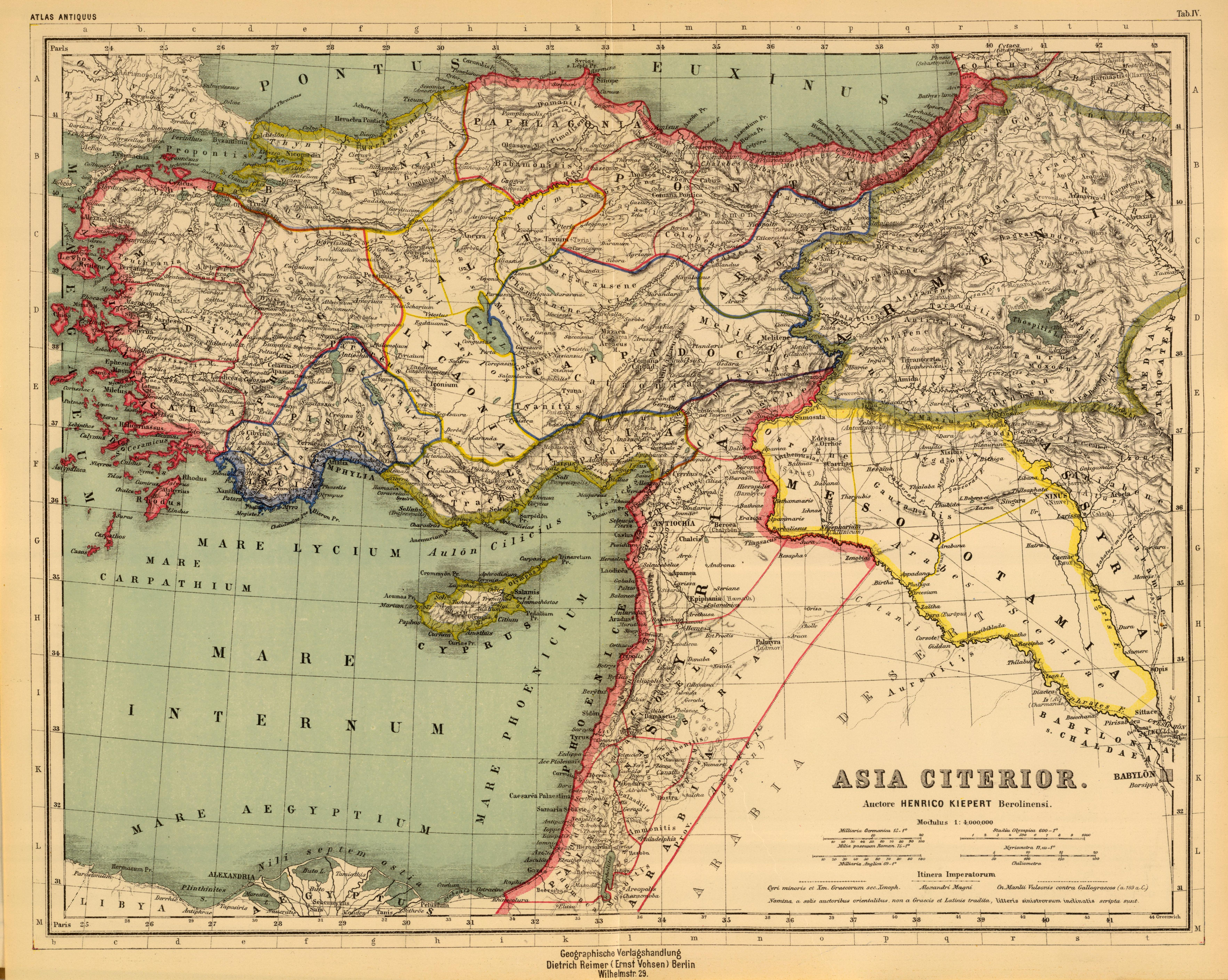 Asia citerior. Auctore Henrico Kiepert Berolinensi. Geographische Verlagshandlung Dietrich Reimer (Ernst Vohsen) Berlin, Wilhemlstr. 29. (1903) Map Historical Borders Xenoph. Alexandri Magni (Alexander Magnus) Gnaei Manlii Vulsonis contra Gallograecos 186 a.C.n. (Gnaeus Manlius Vulso vs. The Galatian Gauls of Asia Minor (Gallo-Graeci —"Gauls settled among the Greeks") in the Galatian War of 186 BCE)